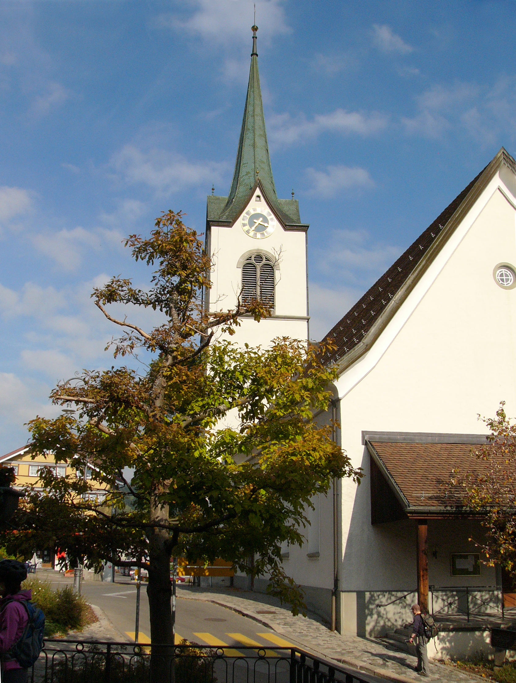 Church in Urnäsch, Canton of Appenzell Ausserrhoden, Switzerland.